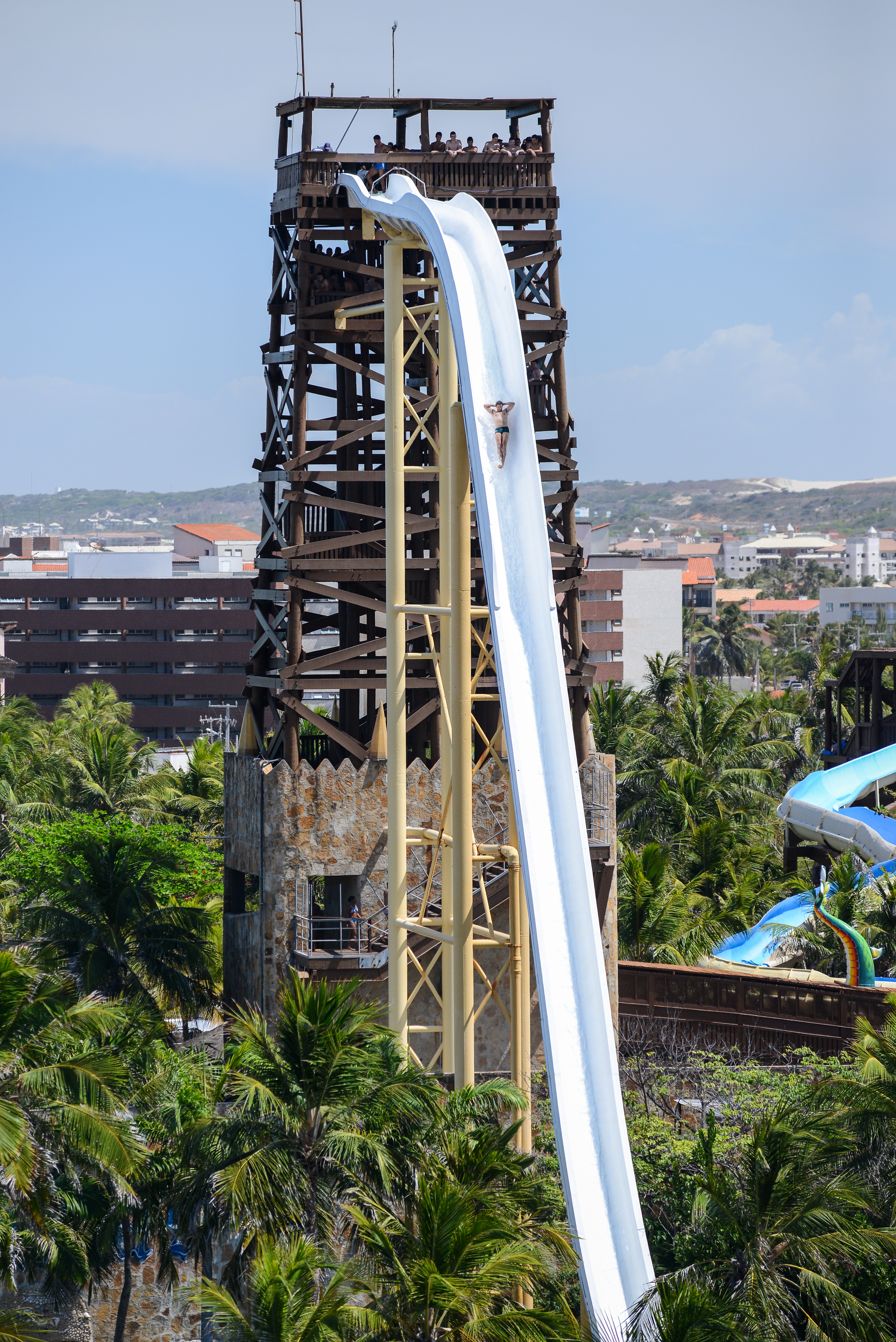 Toboágua mais radical do mundo.